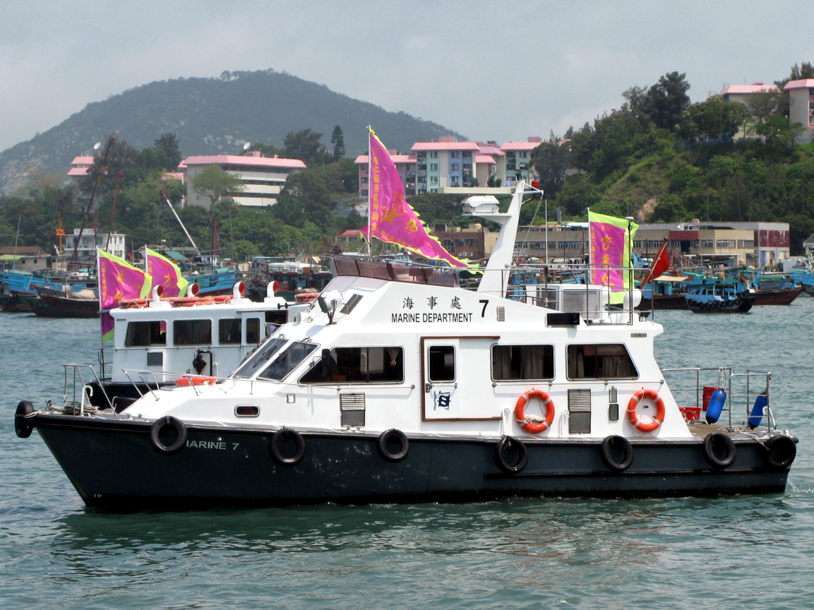 HK Marine Department Ship No.7